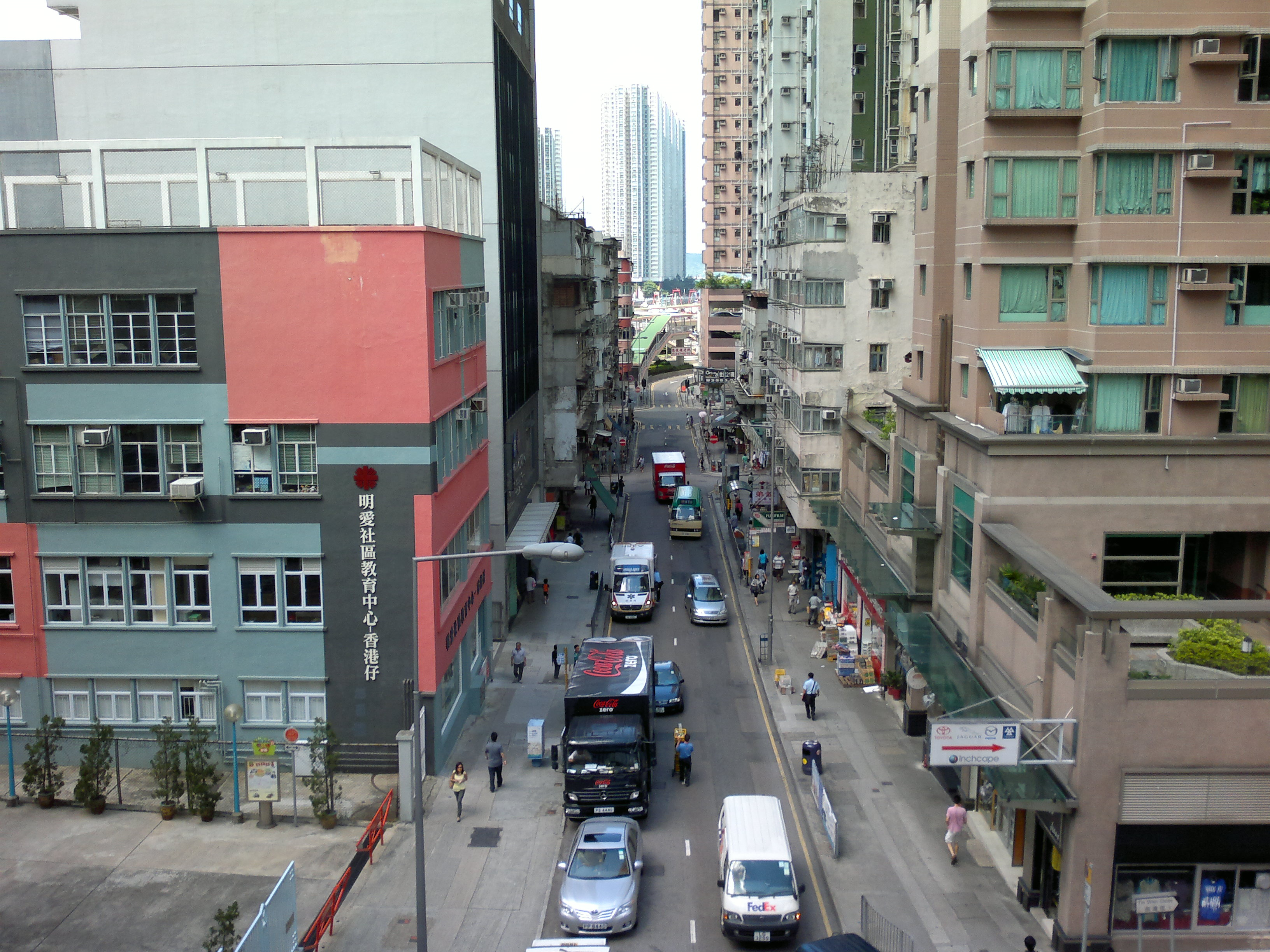 Tin Wan Street near Cantas Centre